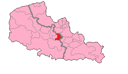 Map of Pas-de-Calais' 11th Constituency shown within Nord-Pas-de-Calais